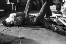 Dennis Lyxzén playing live with The (International) Noise Conspiracy